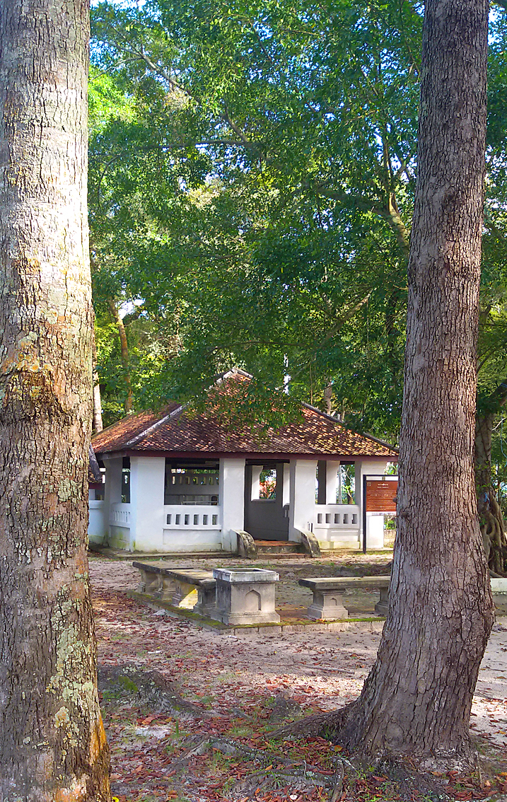 The tomb of Sultan Sulaiman Shah, Singha Nakhon, Songkhla, Thailand